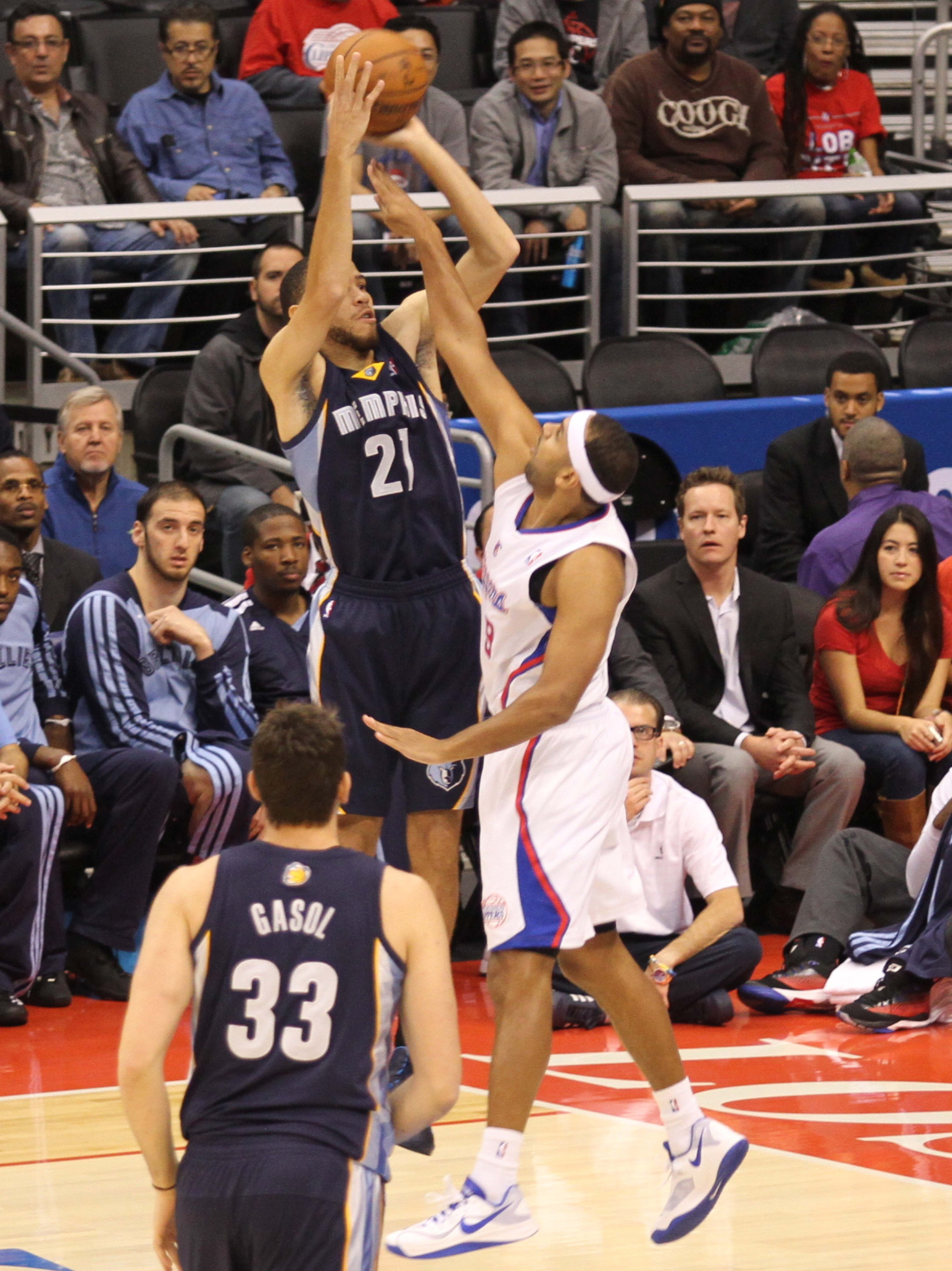 Tayshaun Prince of the Memphis Grizzlies defended by Jared Dudley of the Los Angeles Clippers.